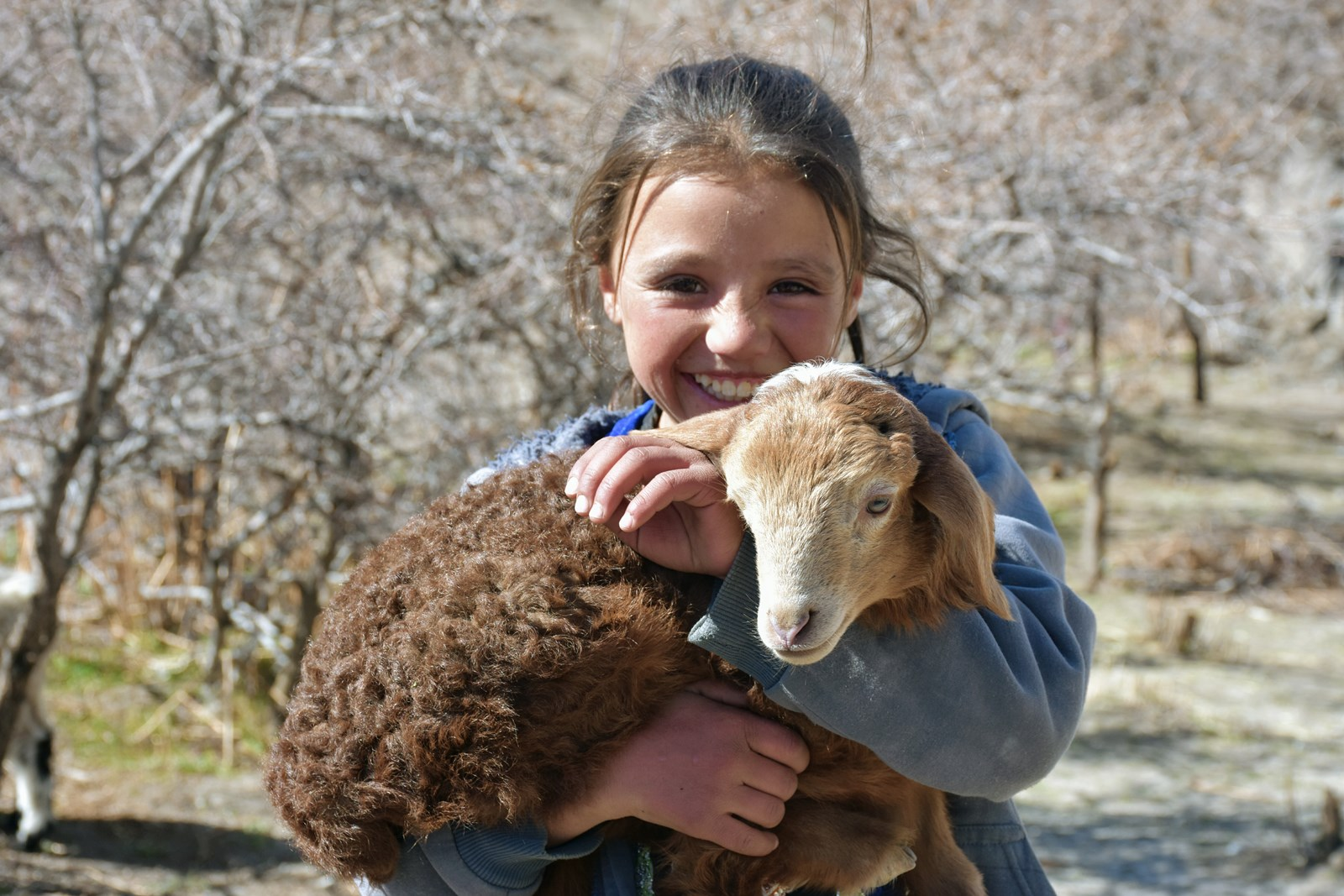 She is Shaila. She belong to Wakhi Community. This picture of her is taken at her village Zoodkhun, Chupurson Valley. This village is near to the famous Wakhan Corridor. This village is located at an altitude of 3,500 m.